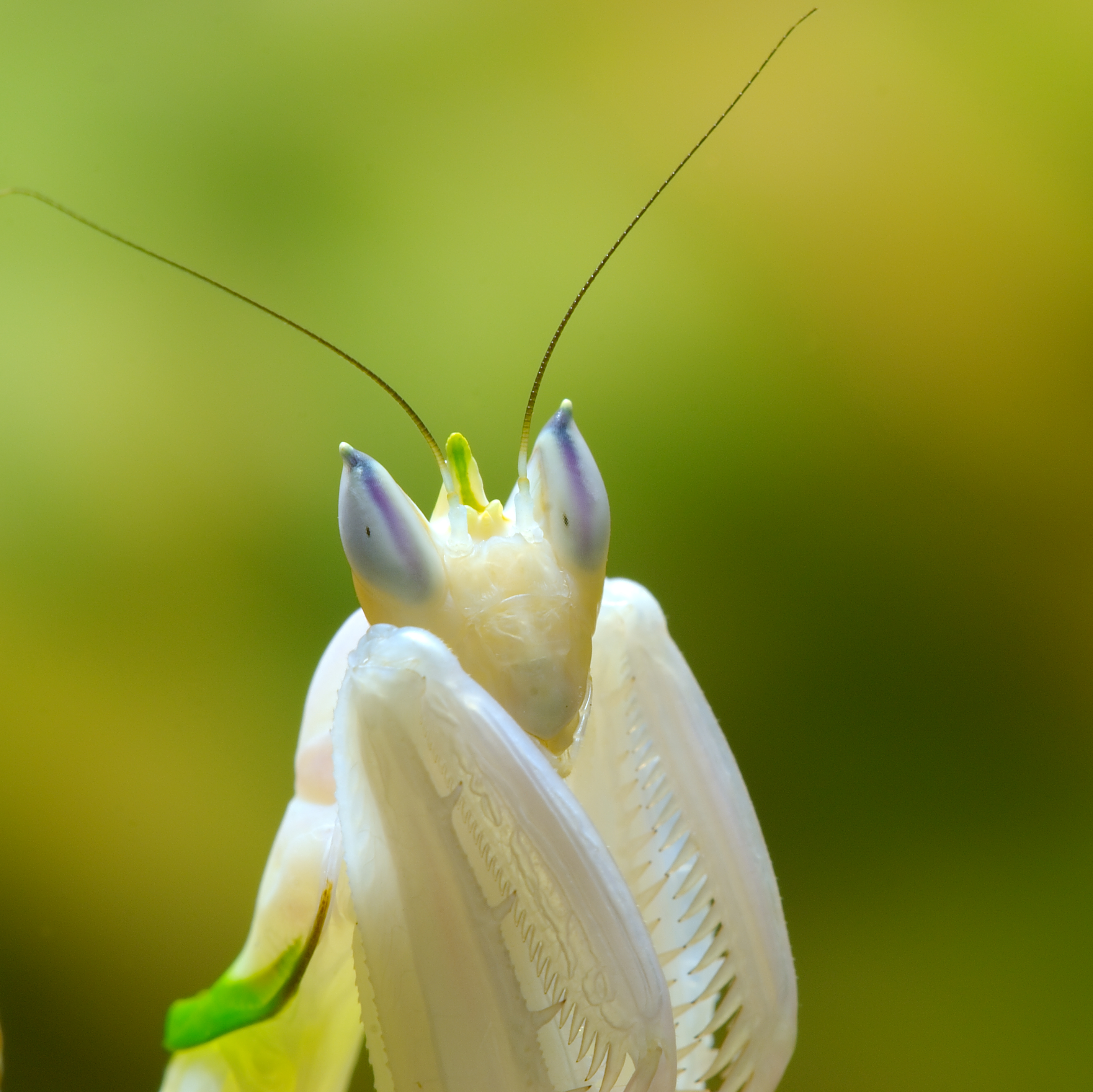 Hymenopus coronatus orchid mantis (female).